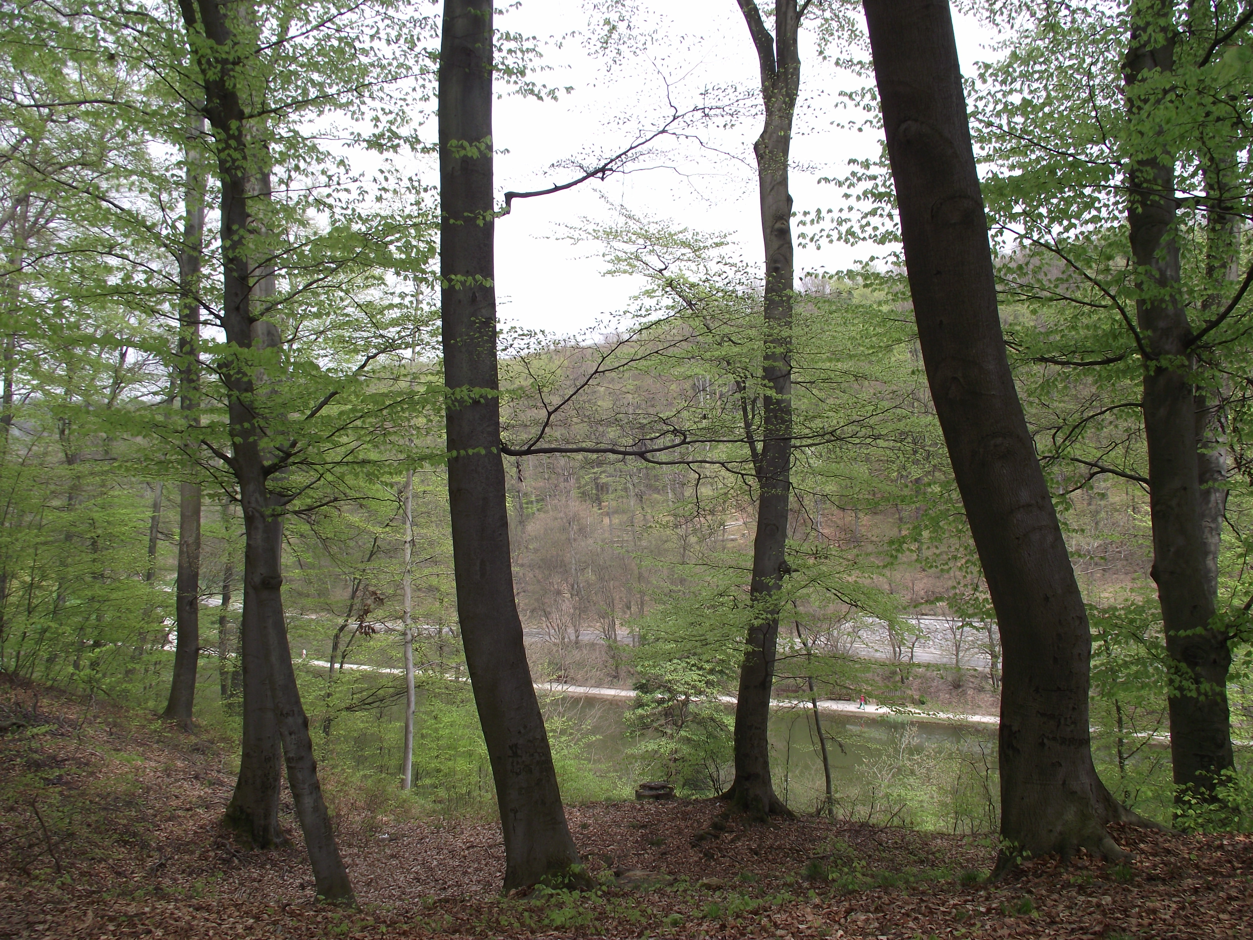 Maribor - St. Barbara's Church